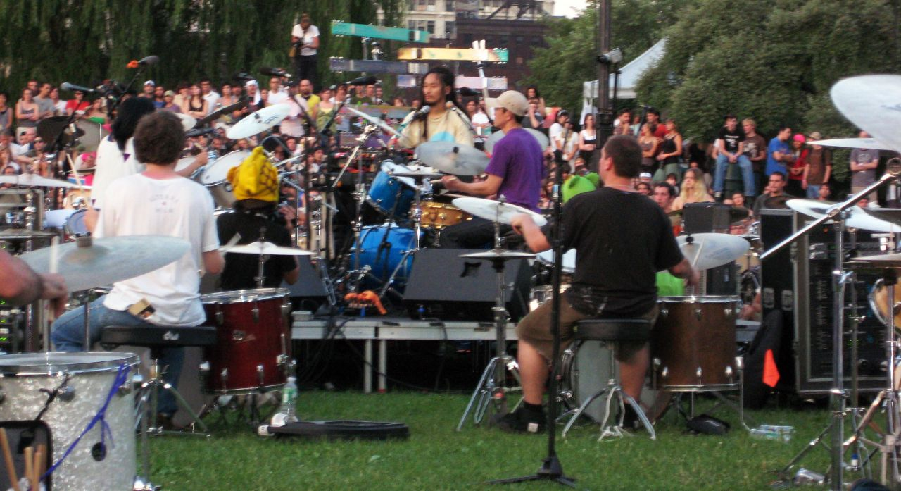 77 Boadrum